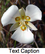 Modified Image:Sego_lily_cm.jpg for illustration of compression artifacts. Good text edge and color grade in lossless compression.